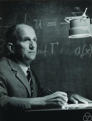 German mathematician Lothar Collatz in undated photo.